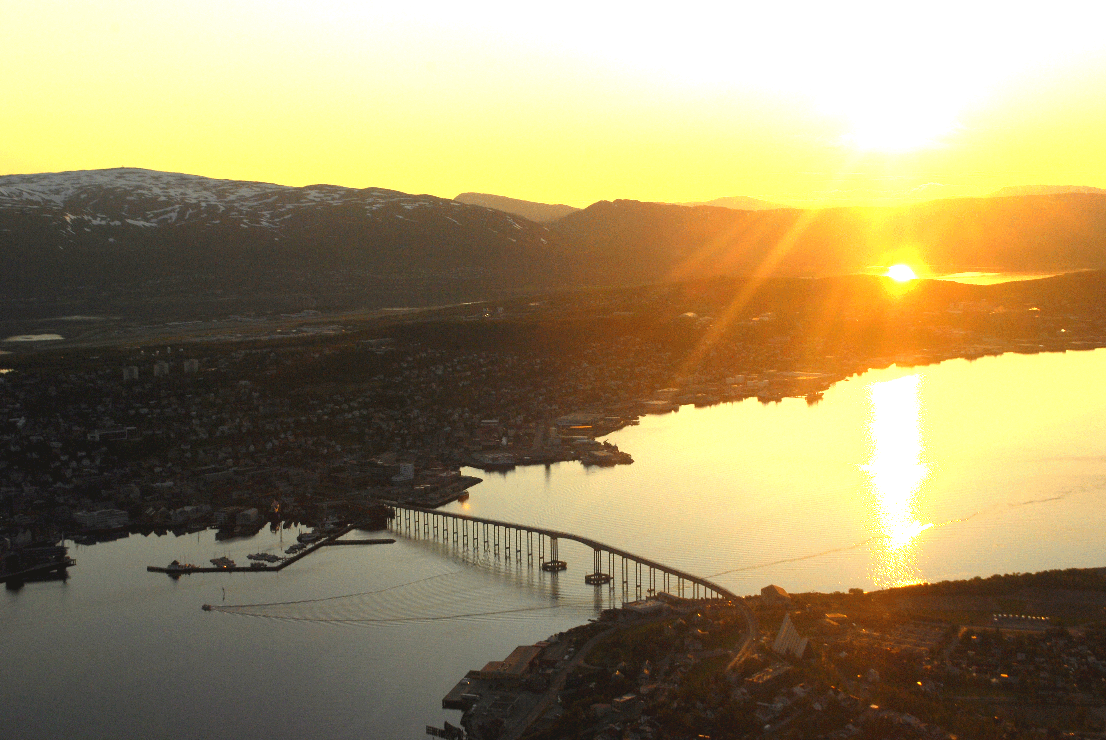 Midnight Sun from the Cable Car in Tromsø on June 30 2009.